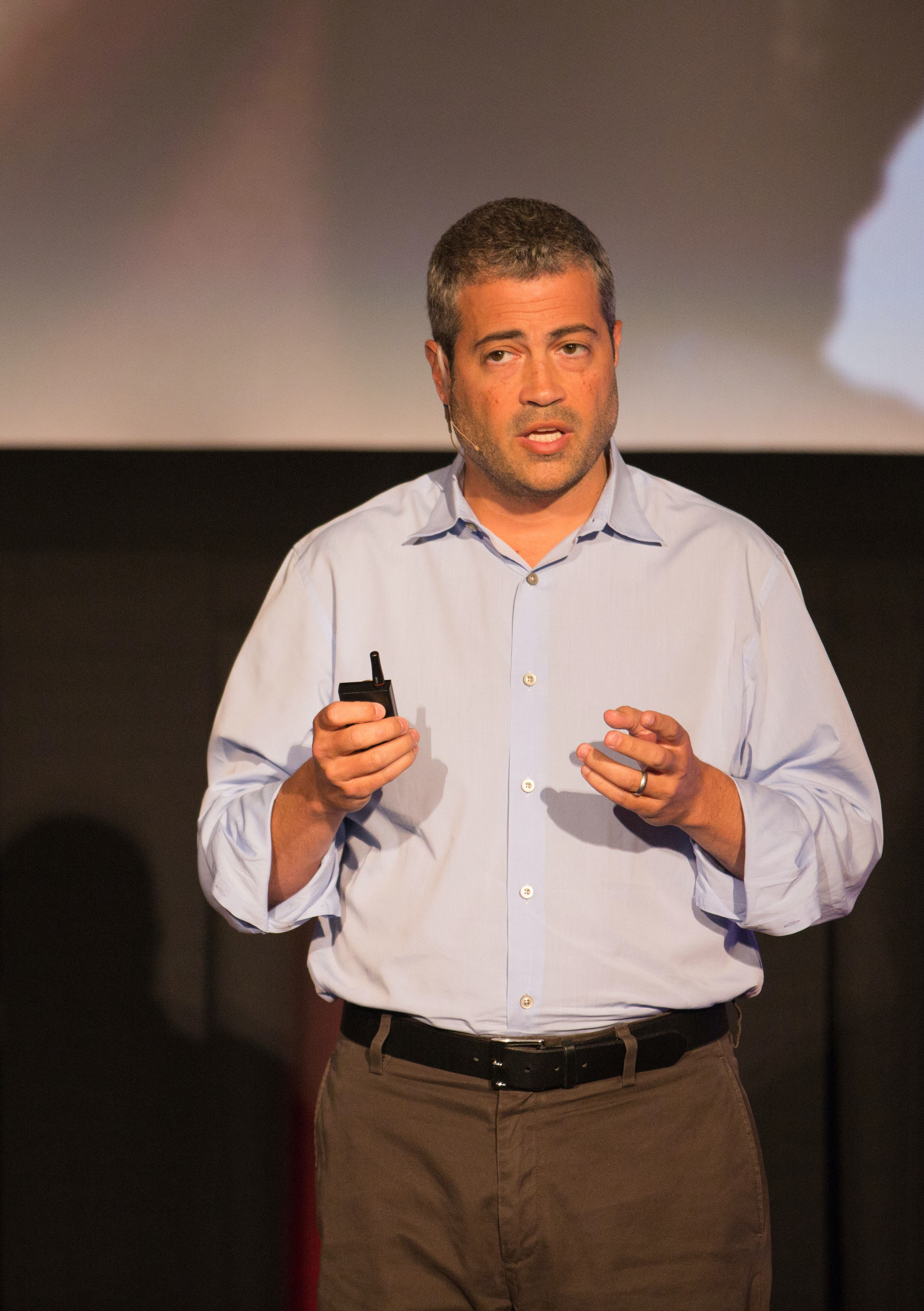 Cropped photo of Matthew Lieberman lecturing onstage at TEDX St. Louis in September 2013.